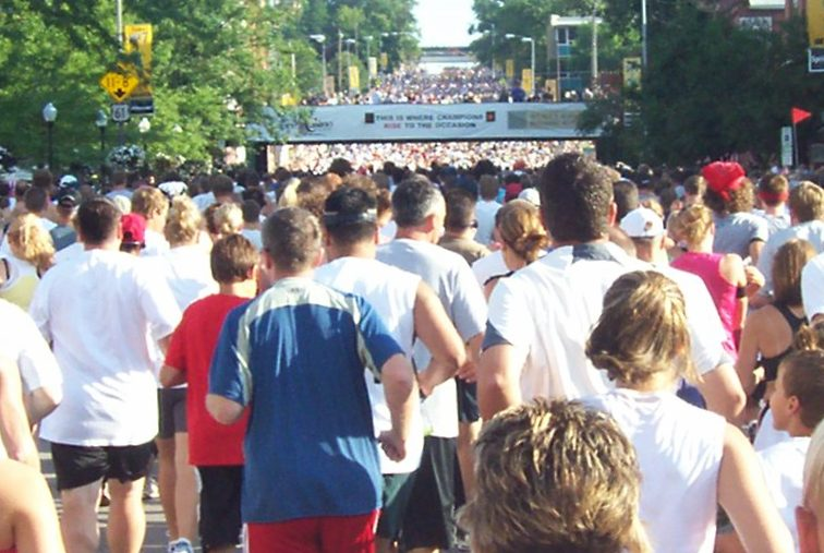 Starting line for the 2008 Bix 7 road race